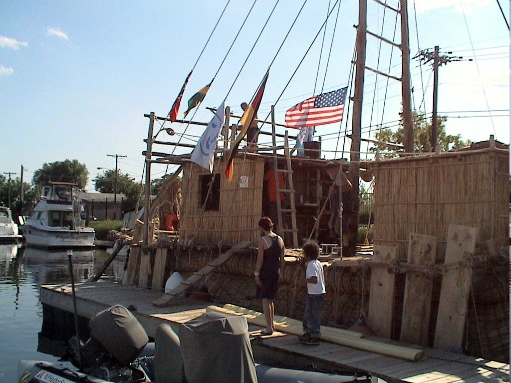 Abora 3 ready to go from Jersey City to Spain